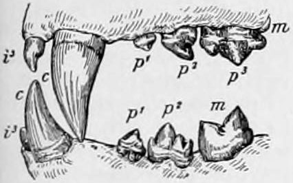 Chart showing the teeth of a lion.